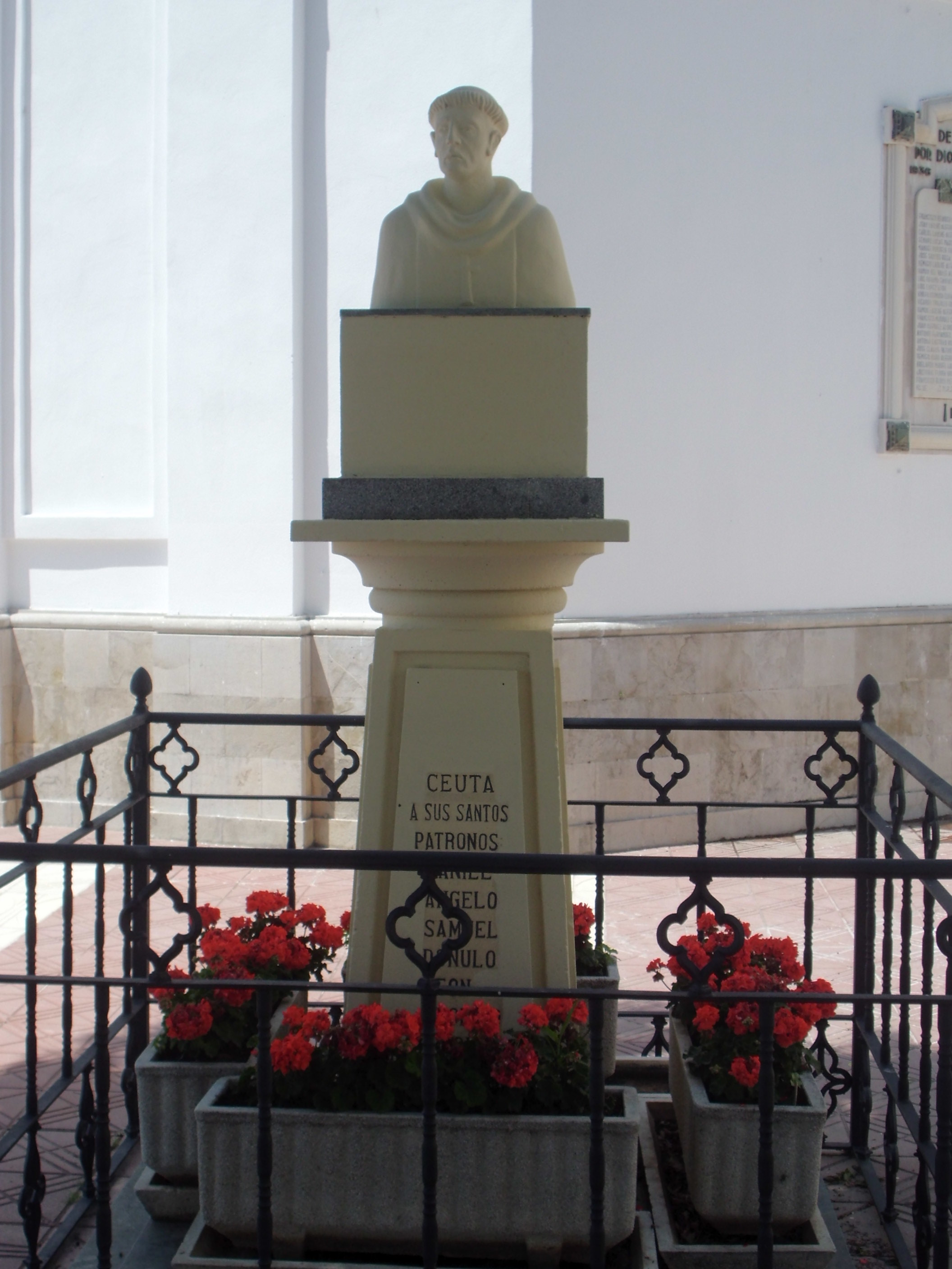 Statues of San Daniel. Ceuta, Spain